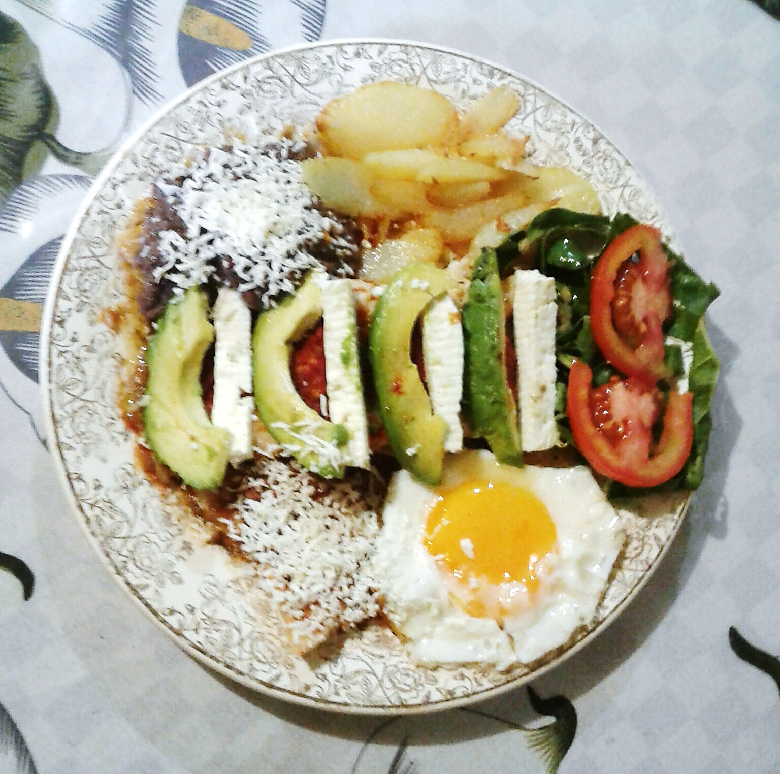 typical gastronomy of Córdoba Veracruz